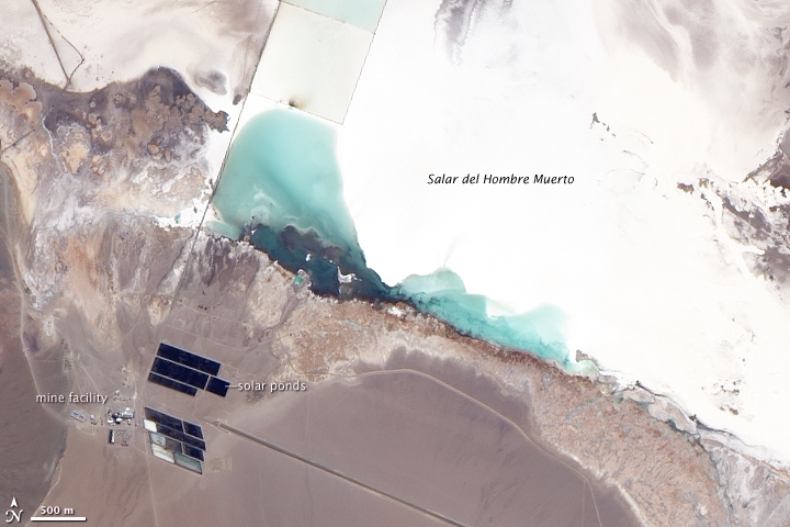 Lithium mine, Salar del Hombre Muerto, Argentina The Advanced Land Image on NASA’s EO-1 satellite captured this image on May 16, 2009.